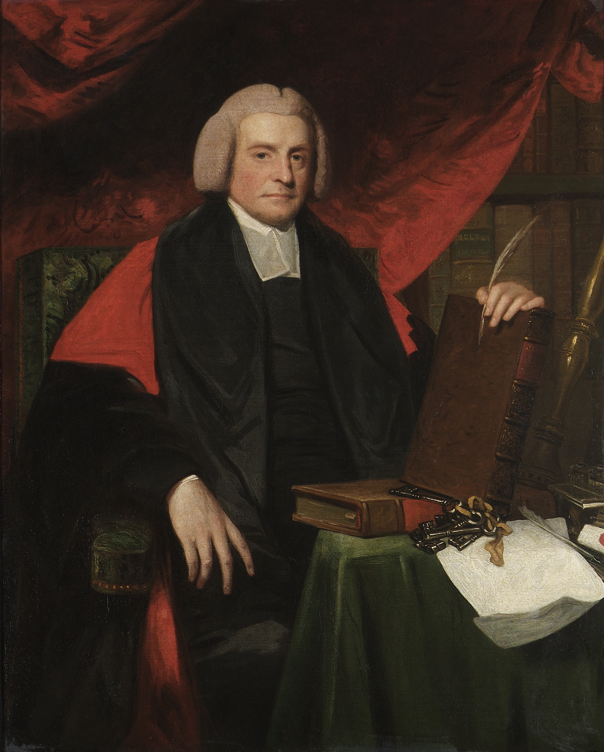 Portrait of John Wills. (died 1806) , Warden of Wadham College, Oxford.